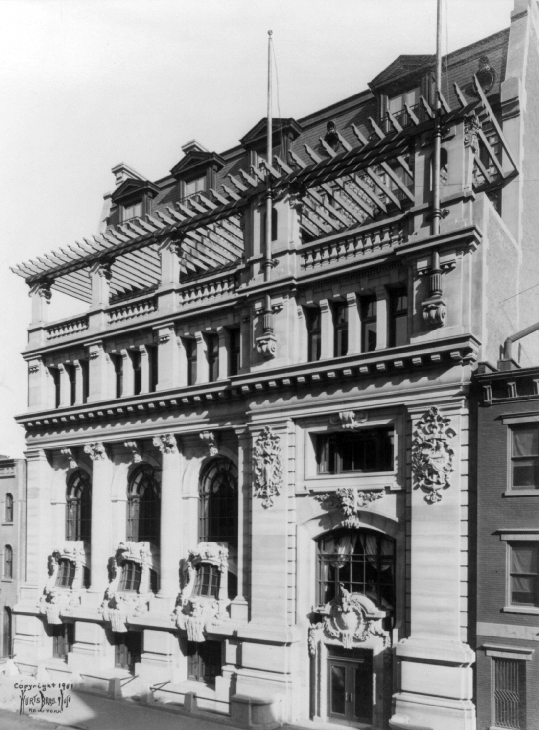 Exterior of the New York Yacht Club.